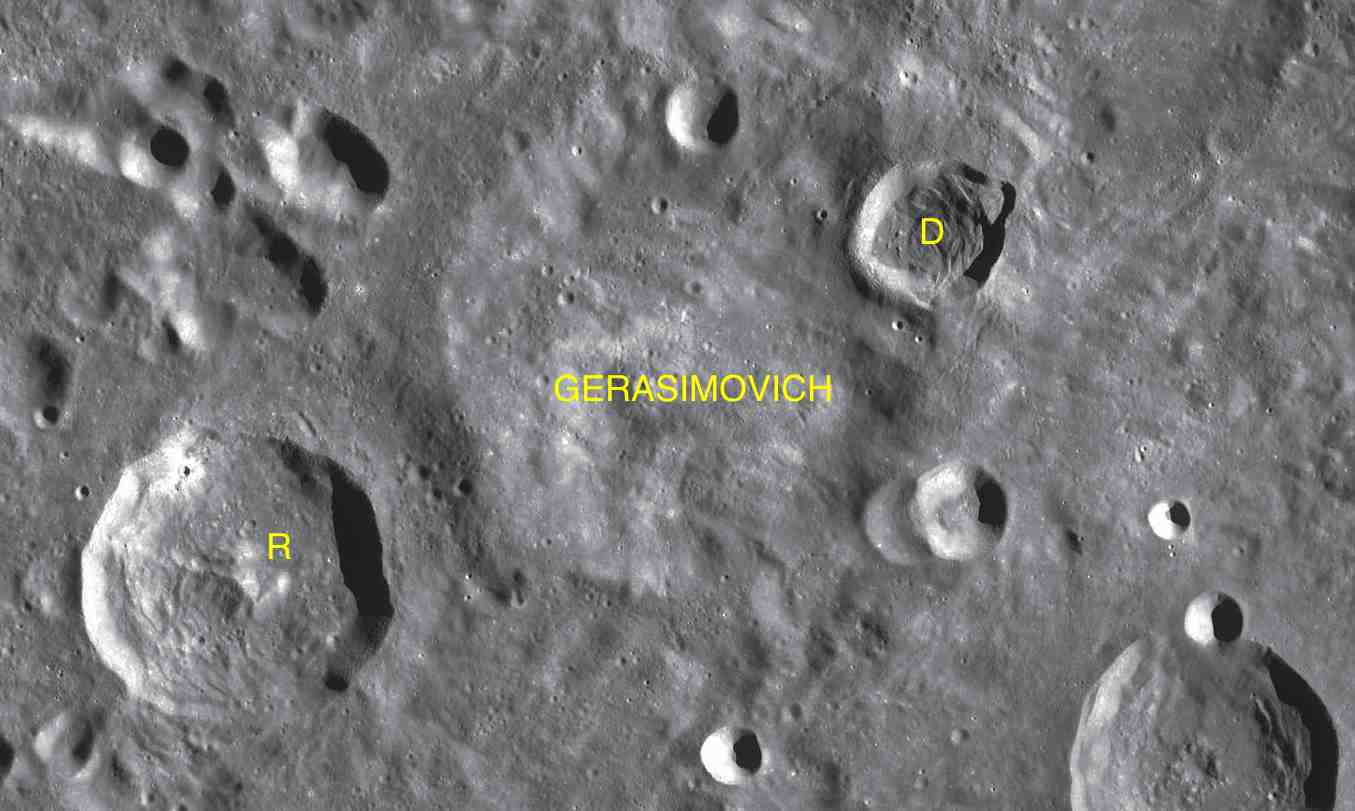 Part of the chart LAC-107 used for the presentation